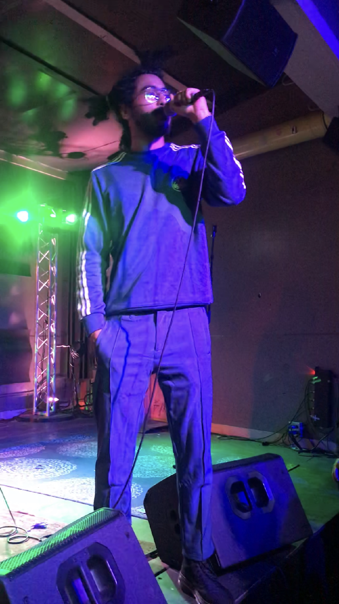 Milo preforming at the Limelight in San Antonio on Nov. 4th 2018